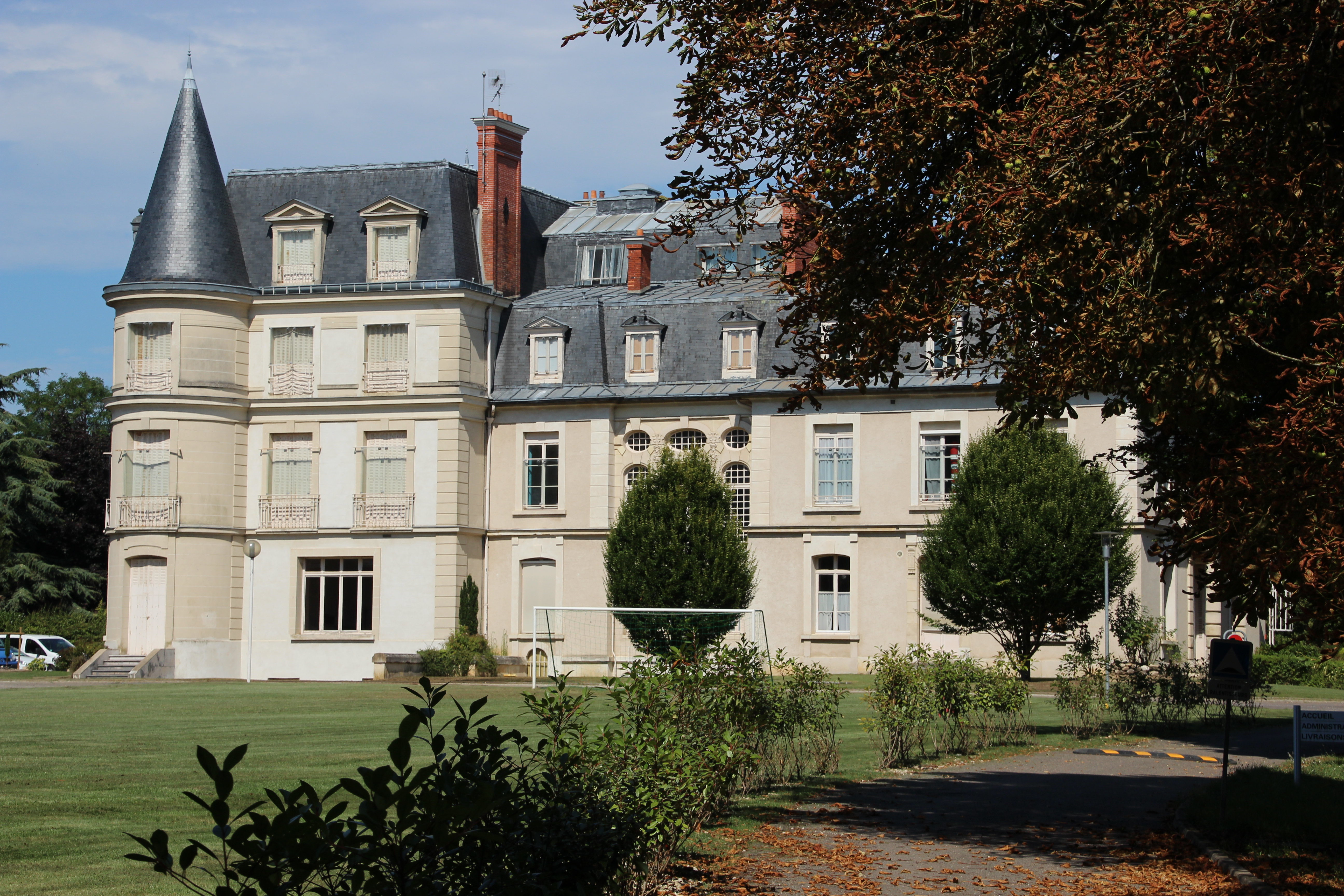 Brunehaut castle in Morigny-Champigny, France